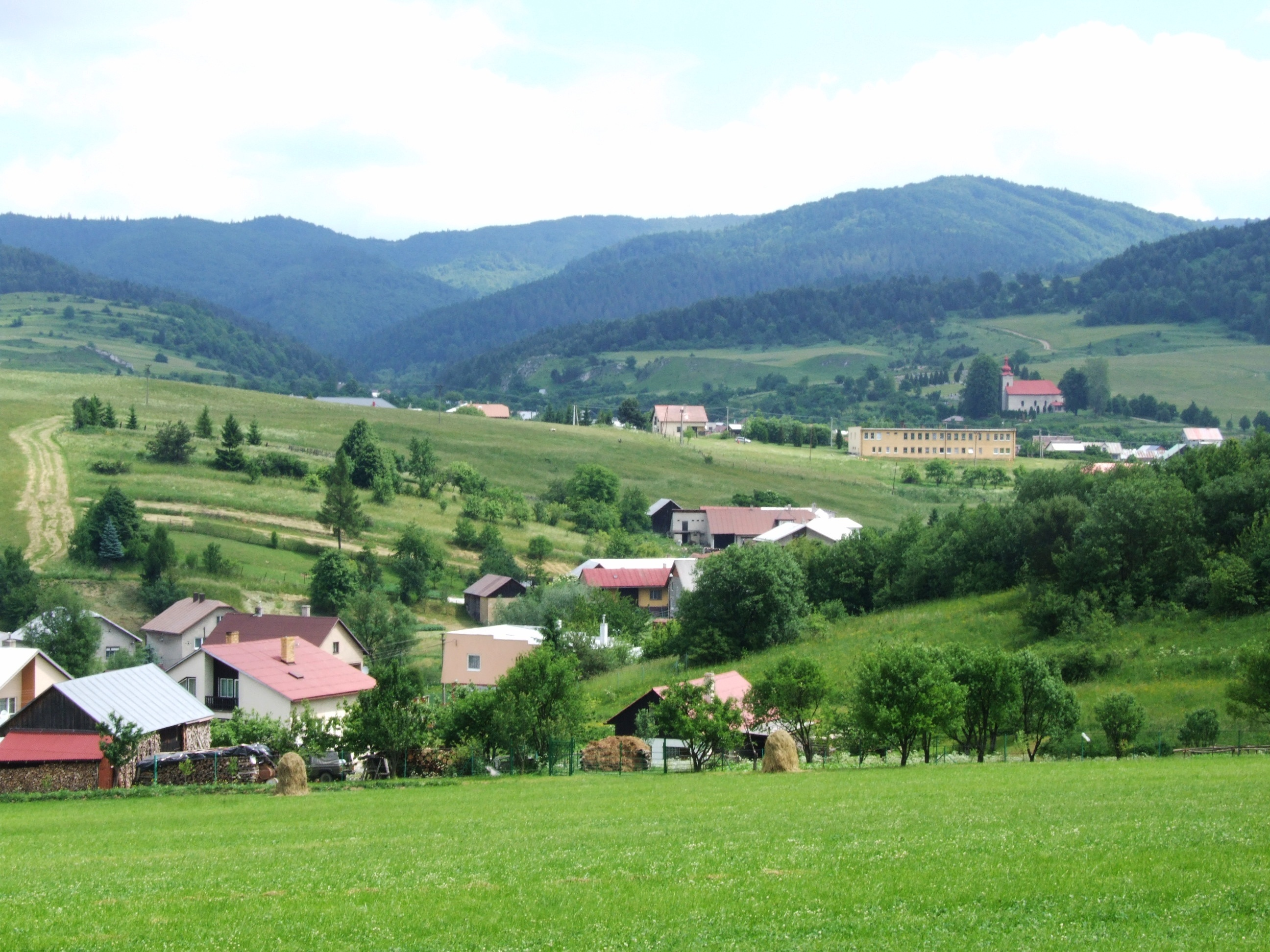 Kyjov (okres Stará Ľubovňa)